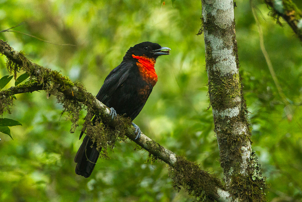 A Red-ruffed Fruitcrow at Intervales State Park, São Paulo, Brazil.